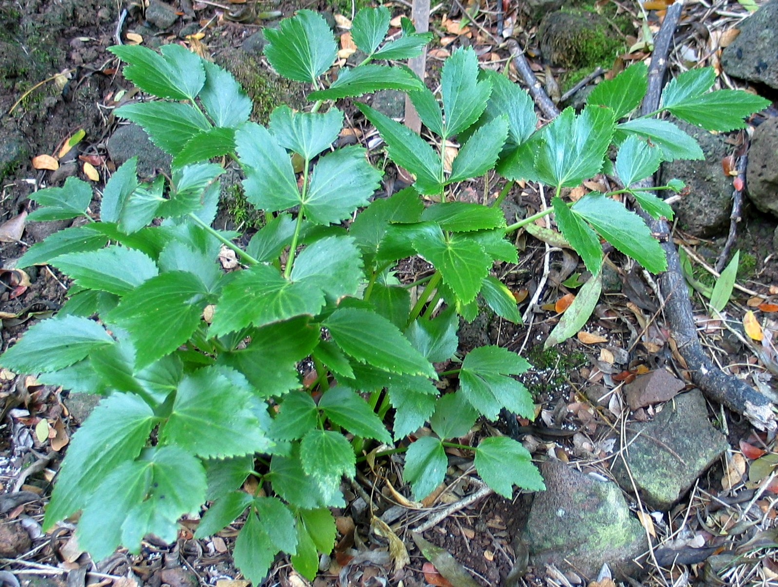 Makou Apiaceae Endemic to the Hawaiian Islands Endangered Oʻahu (Cultivated) In early Hawaii, the tap root was cooked and eaten by babies and elderly people for medicinal purposes.